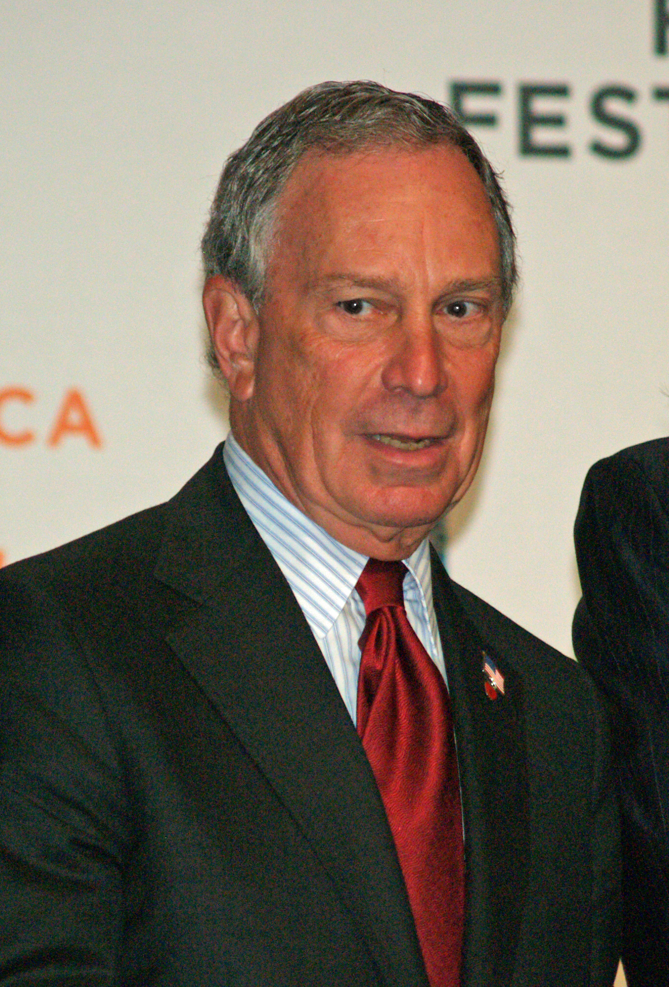 New York City Mayor Michael Bloomberg opening the 2008 Tribeca Film Festival.